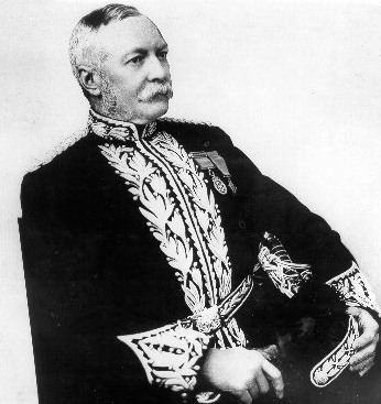 James Monro photographed in about 1888